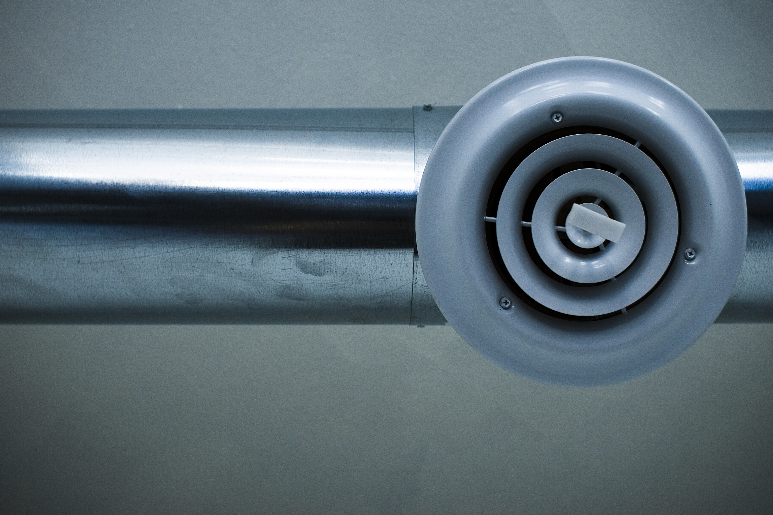 A central ventilation tube and vent.